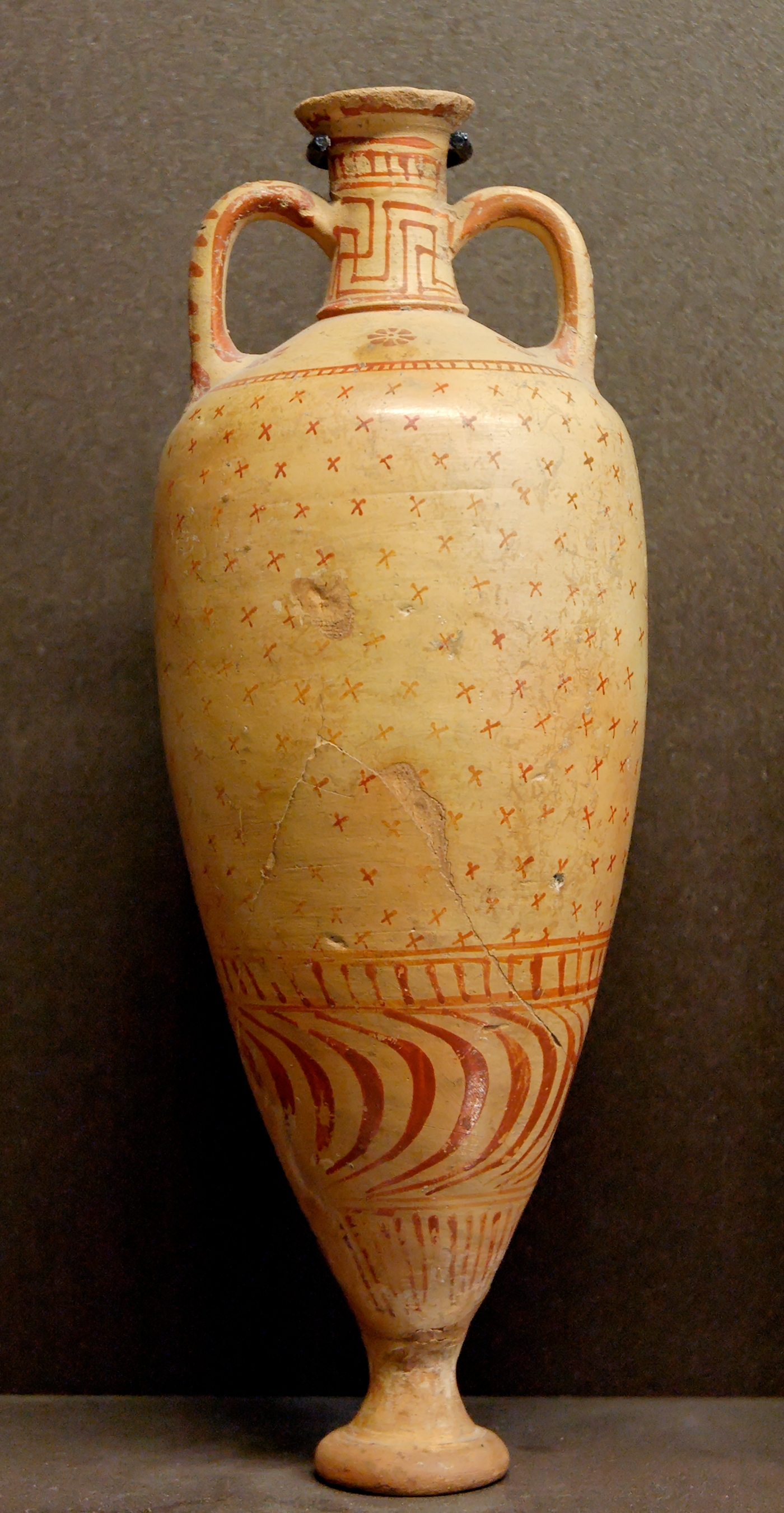 Amphoriskos, Fikellura style, ca. 550–525 BC. Found in Kameiros, Rhodes.